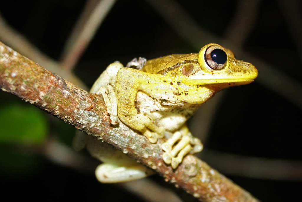 Osteopilus septentrionalis in pine forest above Playa Maguana, Baracoa area, Guantanamo, Cuba